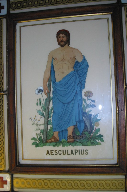 A statue of Asclepius. Svaneapoteket, Oslo, Norway.